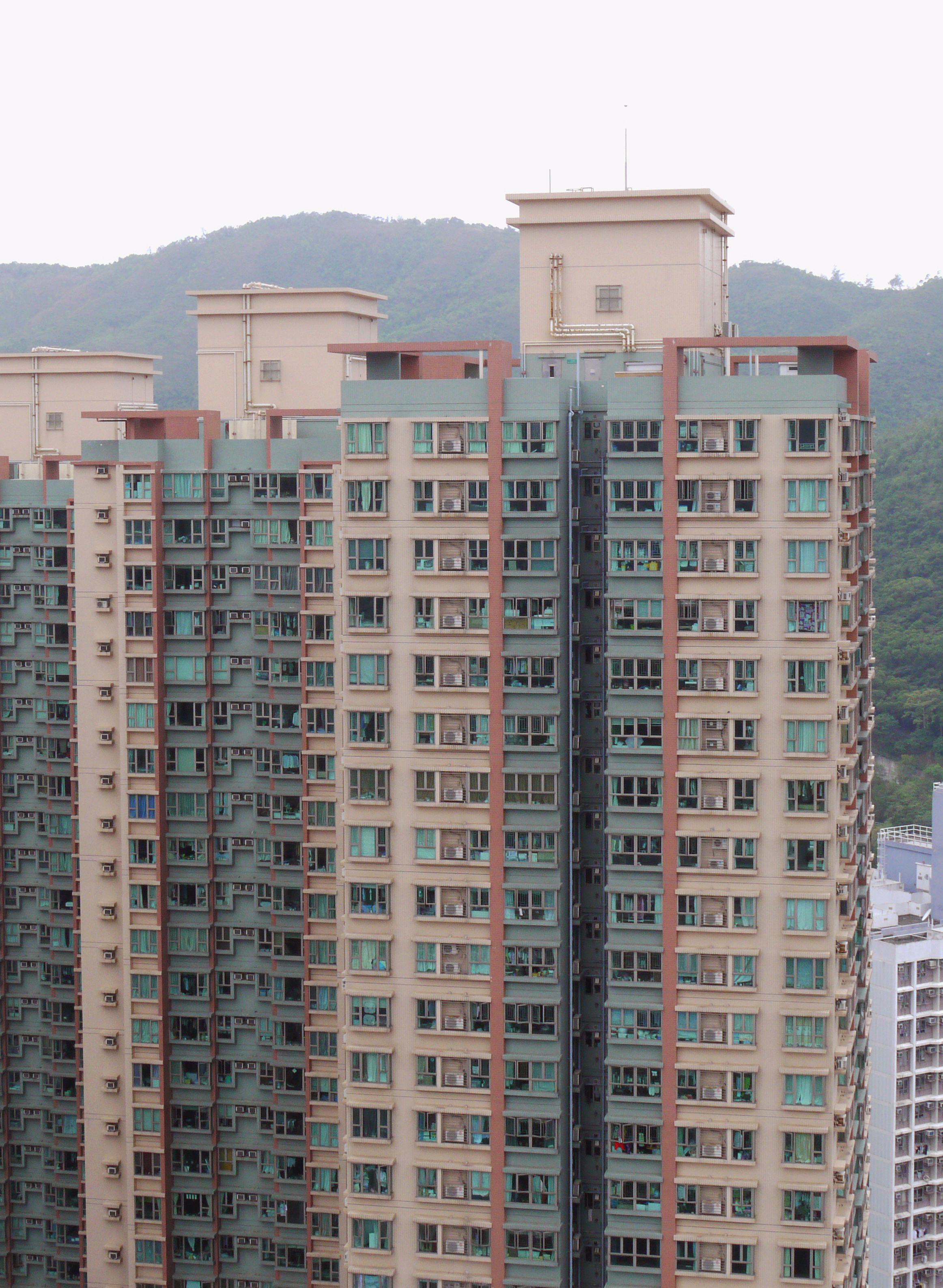 Top treatment of Parl Central Phase 2